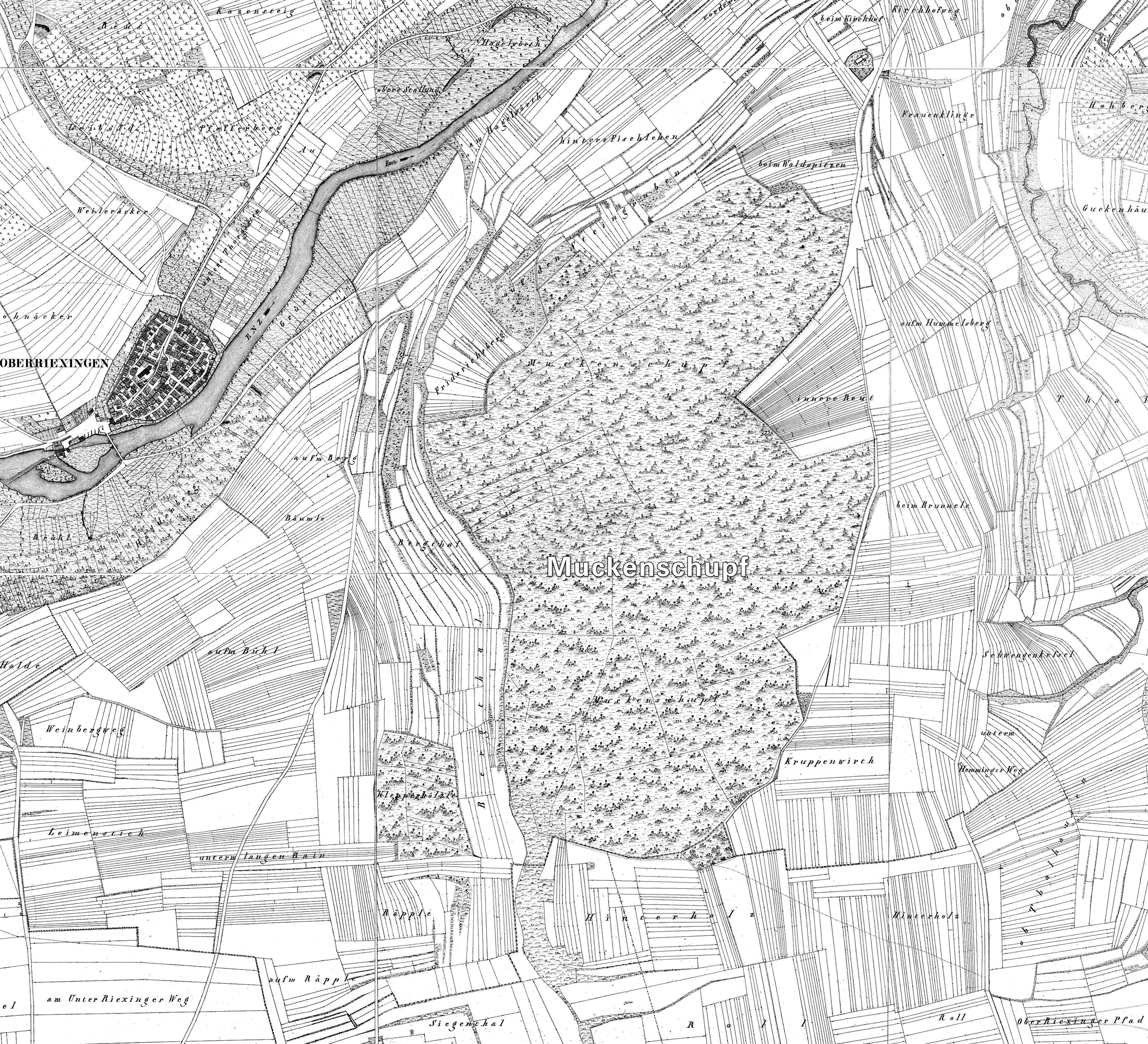 Muckenschupf on "Württ. Urflurkarte" (1:2500). Composit of Planquadrat NW XXXIX 1 (NW 39 01) and Planquadrat NW XL 1 (NW 40 01) with others